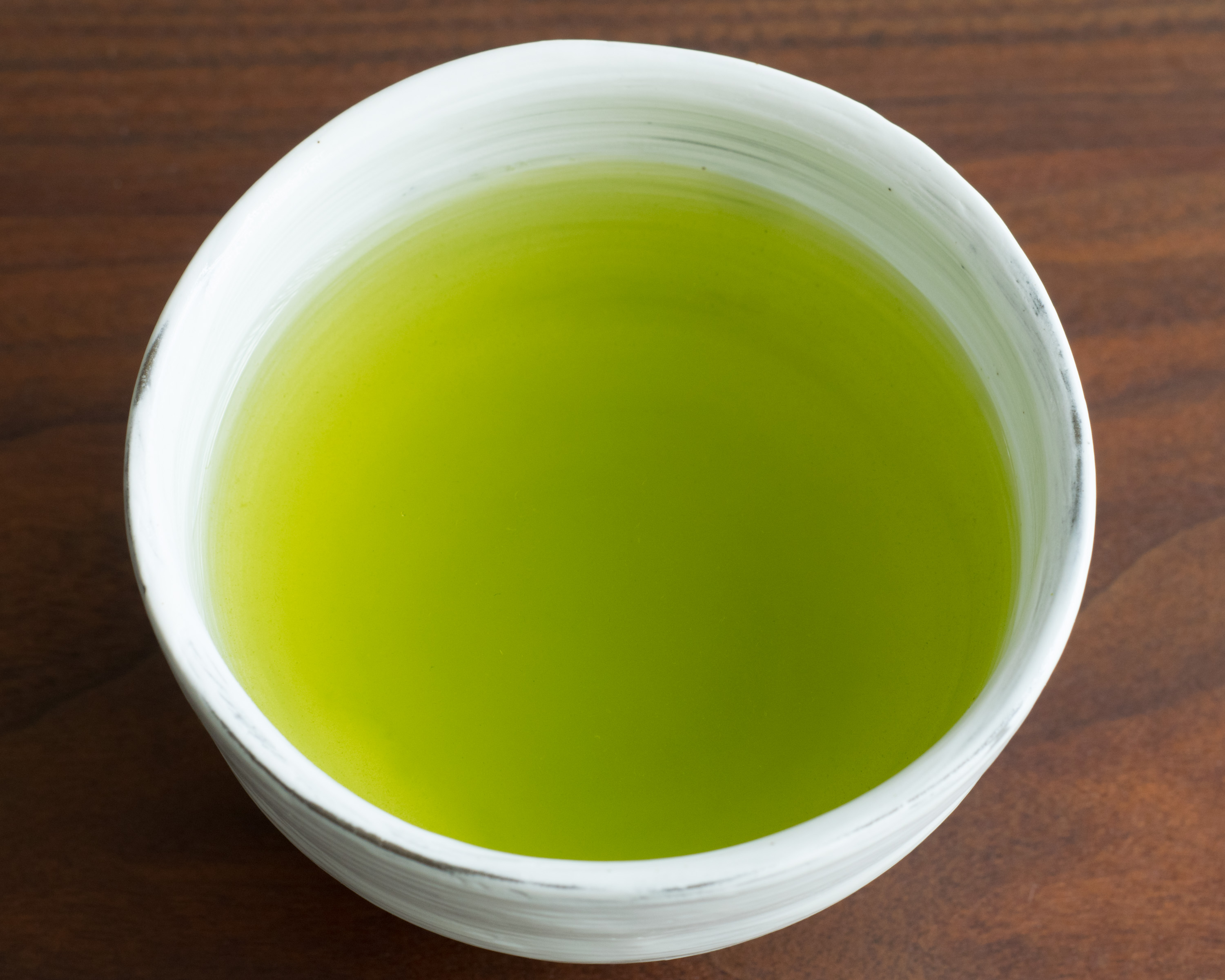 Deep steamed sencha from the first harvest of 2017. Grown in Kagoshima, this tea is made using the Sae Midori variety of the tea plant, which is a cross between Yabukita and Asatsuyu. The second infusion of the tea is shown here in a contemporary white ceramic Arita-yaki cup, made in the wabi-sabi style.